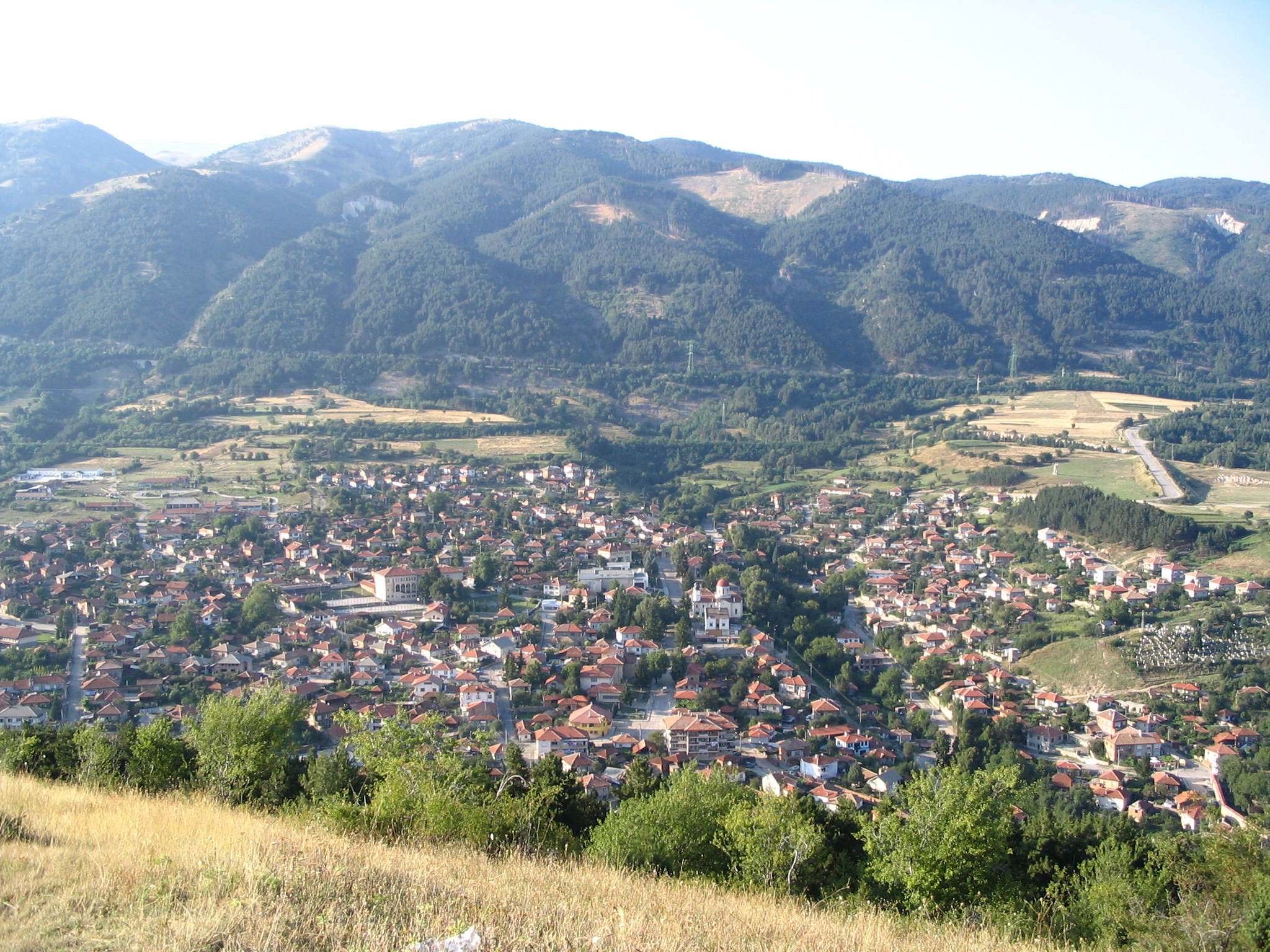 View from Sredna Gora mountain to Klisura. Bulgaria